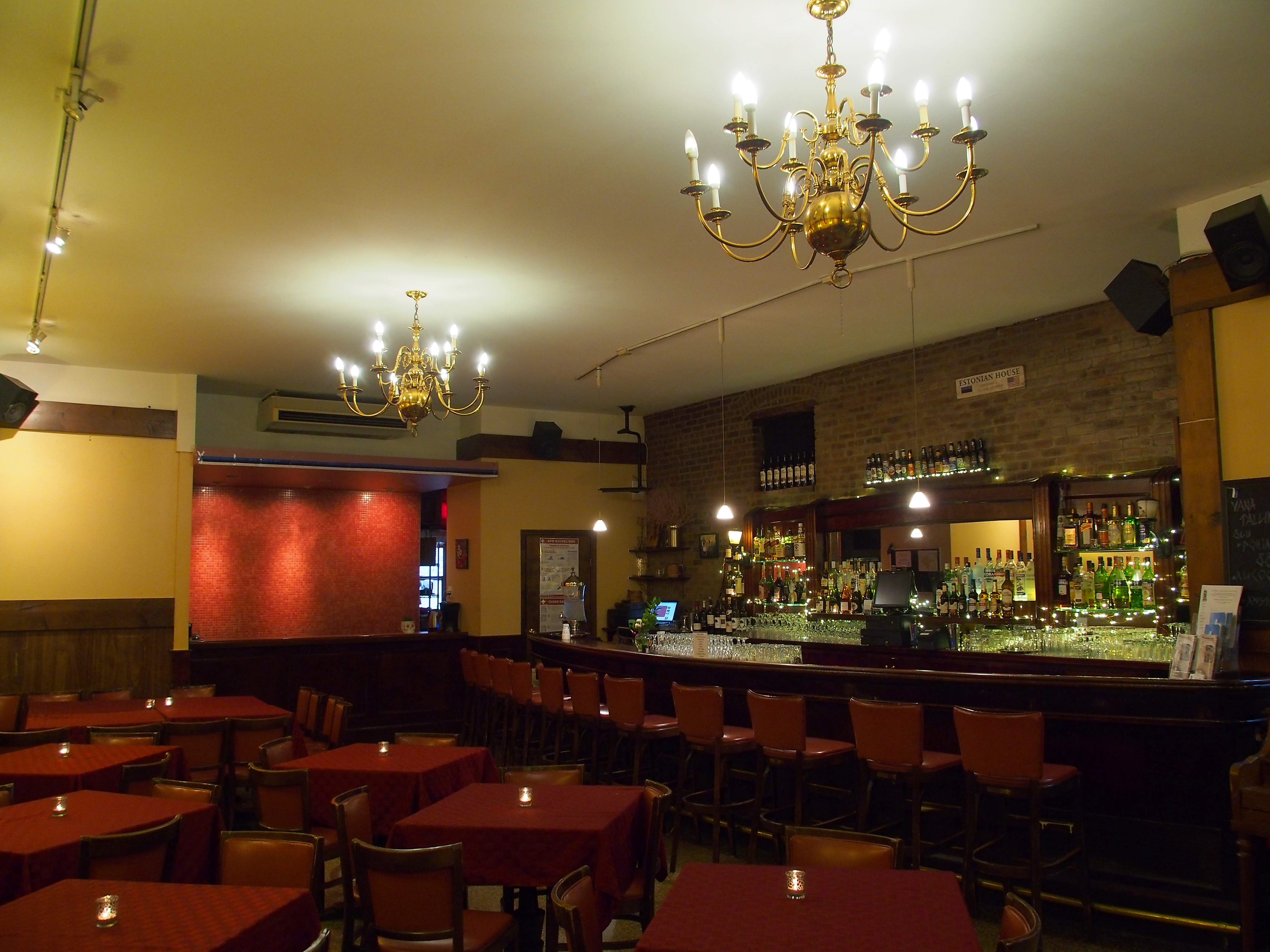 A shot of the bar at the Estonia House. Site: Estonia House